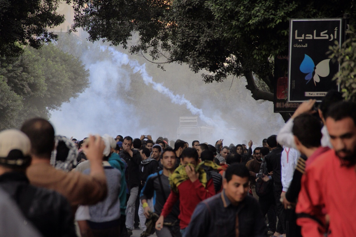 Original description: "Protesters run after police fired tear gas in Cairo, Dec. 6, 2013. (Hamada Elrasam for VOA) "